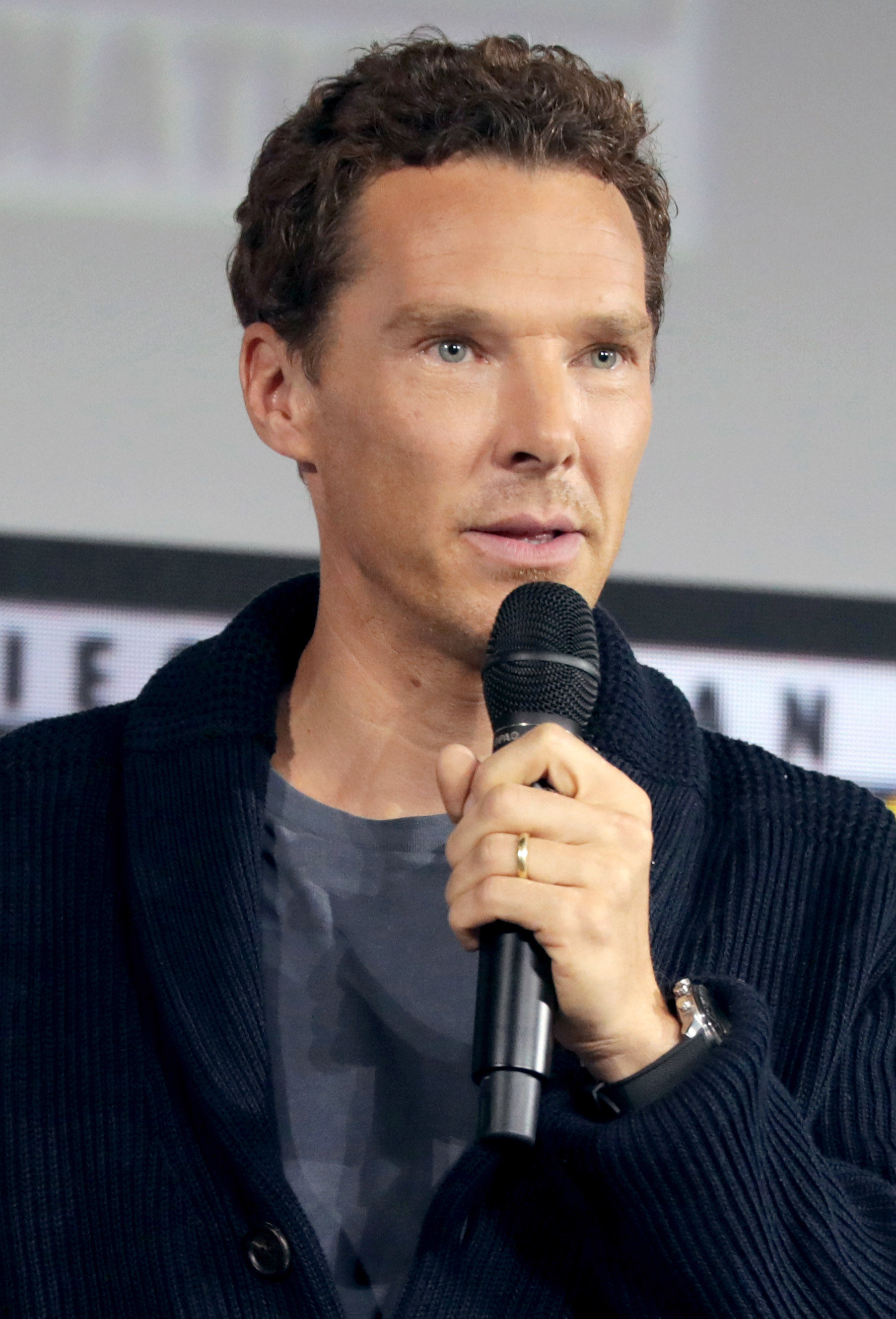 Benedict Cumberbatch speaking at the 2019 San Diego Comic Con International, for "Doctor Strange in the Multiverse of Madness", at the San Diego Convention Center in San Diego, California.